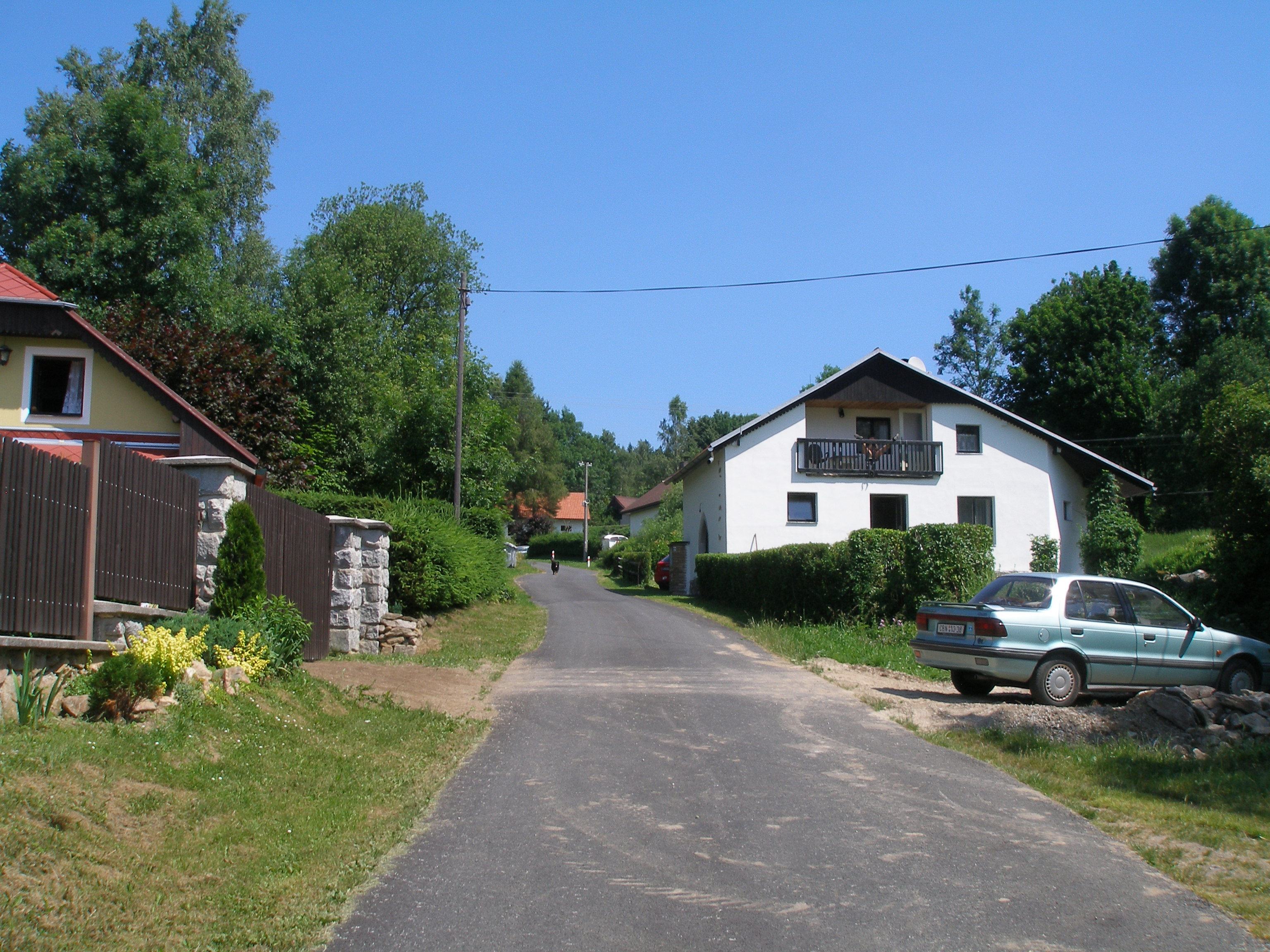 Former chapel in village Lužnice (part of Pohorská Ves)